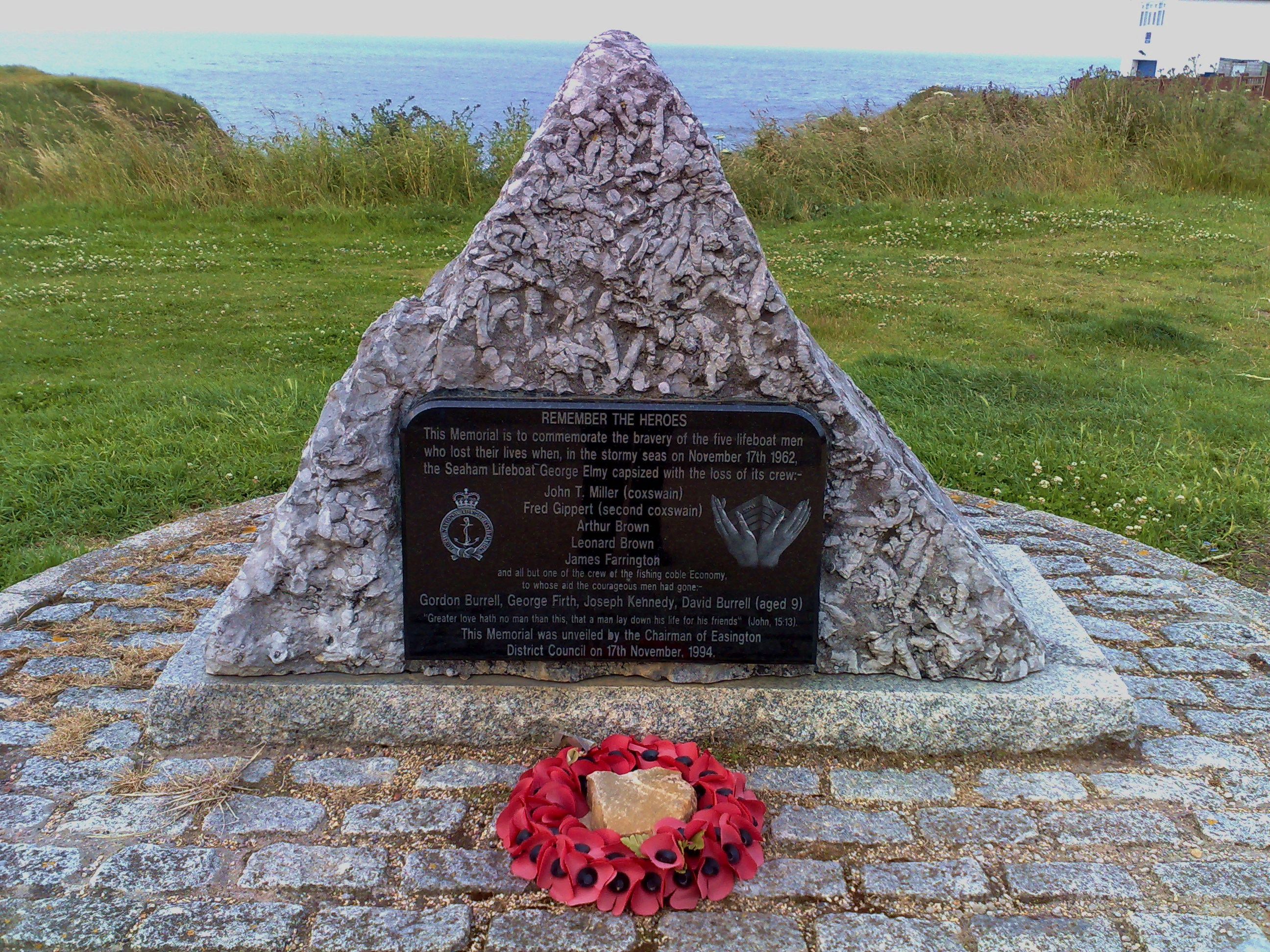 01/07/2008. Seaham, North East England, on the sea front. Google Street View This memorial is approximately 3 foot (1m) high, commemorating the eight men and one boy who lost their lives in a storm at sea over forty years ago. The inscription reads: REMEMBER THE HEROES This memorial is to commemorate the bravery of the five lifeboat men who lost their lives when, in the stormy seas on November 17th 1962, the Seaham Lifeboat George Elmy capsized with the loss of its crew: John T Miller (coxswain) Fred Gippert (second coxswain) Arthur Brown Leonard Brown James Farrington and all but one of the crew of the fishing coble Economy, to whose aid the courageous men had gone: Gordon Burrell, George Firth, Joseph Kennedy, David Burrell (aged 9) "Greater love hath no man than this, that a man lay down his life for his friends" (John, 15:13). This memorial was unveiled by the Chairman of Easington District Council on 17th December, 1994. More information is available on the official website. UPDATE (May 09): Also this recent article in the Sunderland Echo - the George Elmy has come home to Seaham! See David John Harris' photograph of her just after she arrived. UPDATE: (Jan 10): Restoration of the George Elmy is under way. Once completed, she will be allowed to complete the journey she started so many years ago; sailing into the harbour one last time, before taking pride of place as the main exhibit in the newly refurbished North Dock.